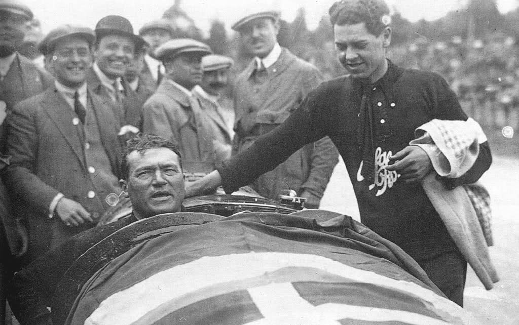 Antonio Ascari (1888–1925) has won the 1925 Belgian Grand Prix at Spa-Francorchamps for Alfa Corse (the factory team) in an Alfa Romeo P2 (June 28, 1925). His mechanic and co-driver Giulio Ramponi (1902–86) standing at the side. Ascari died a month later at the French GP.